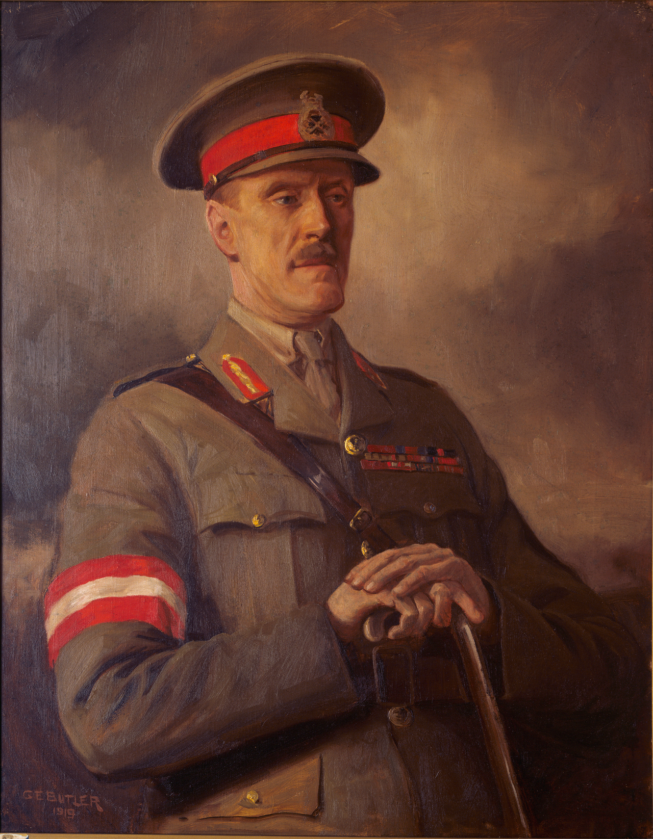 Portrait of Lieutenant General Alexander Godley